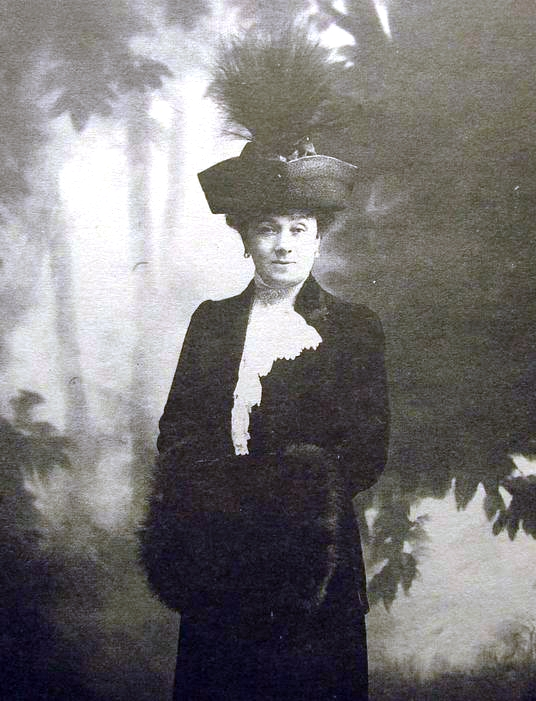 Vitte M.I. (Lisanevitsch). 1905